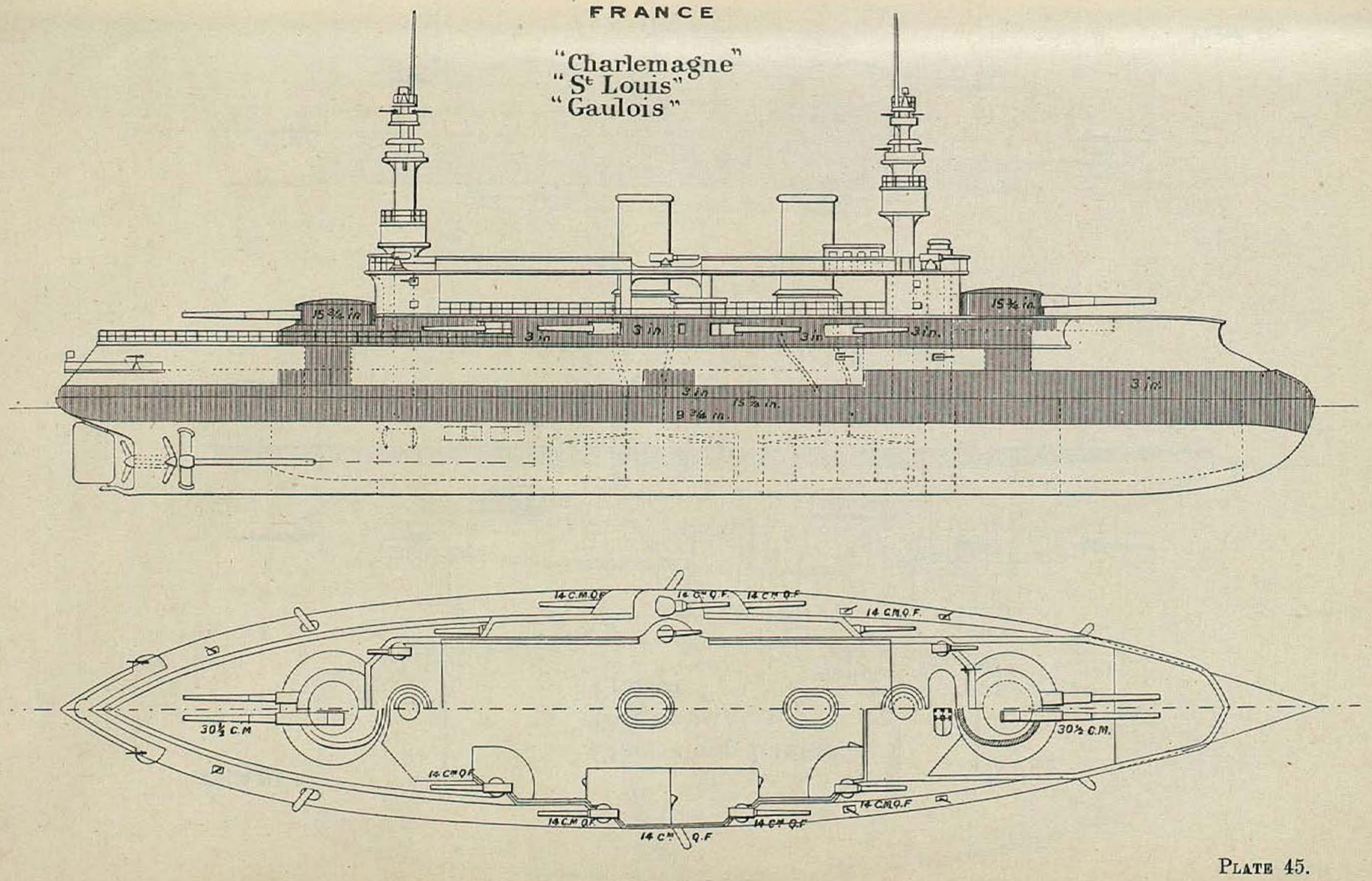 Right elevation and deck plan depicting French Charlemagne class battleship. Top diagram (right elevation) shows armour thickness in inches. Bottom diagram (deck plan) shows gun sizes in cm.